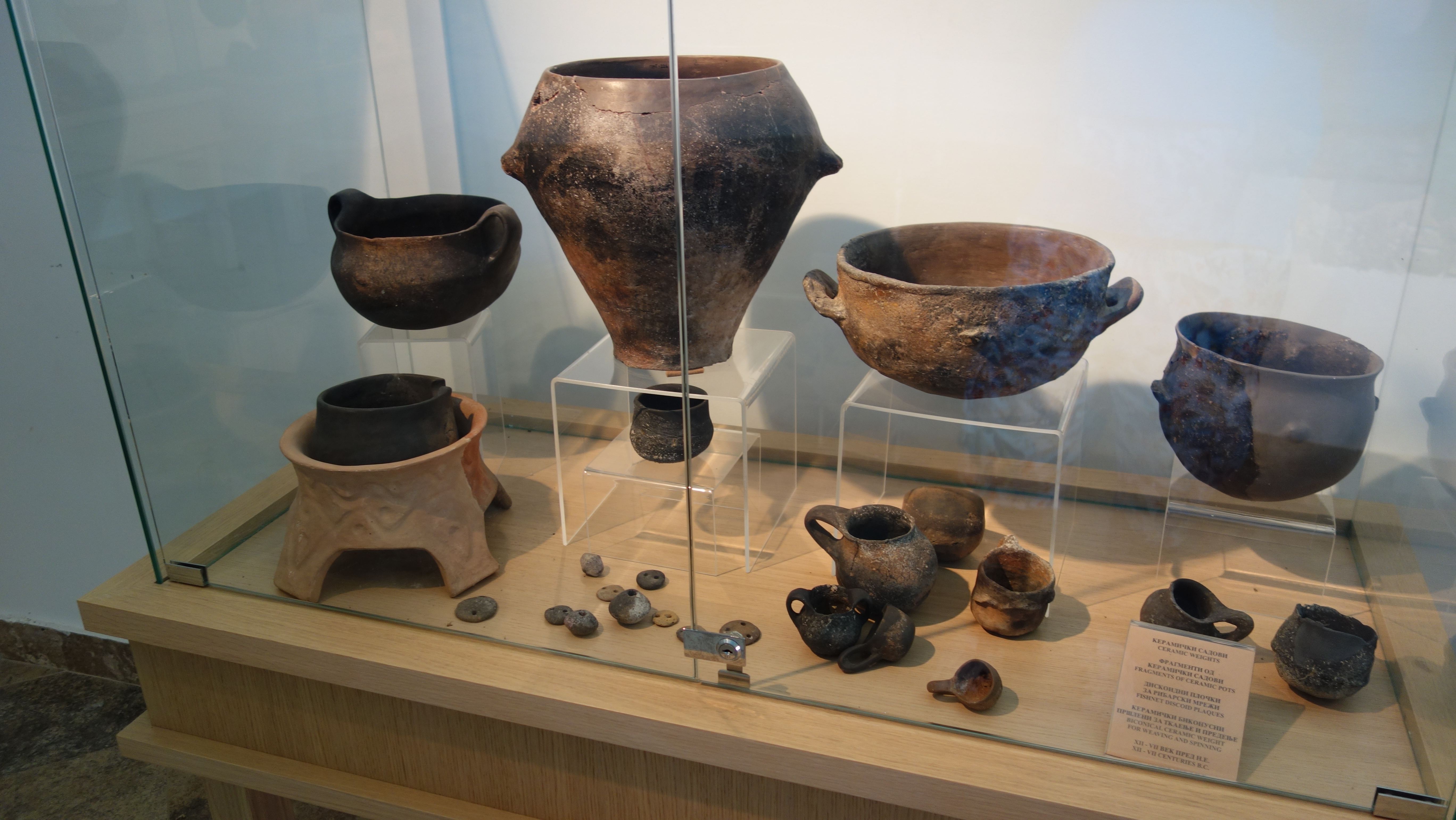 Museum on water, Ohrid Lake, Macedonia